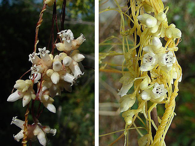 A Chilean species of Dodder.